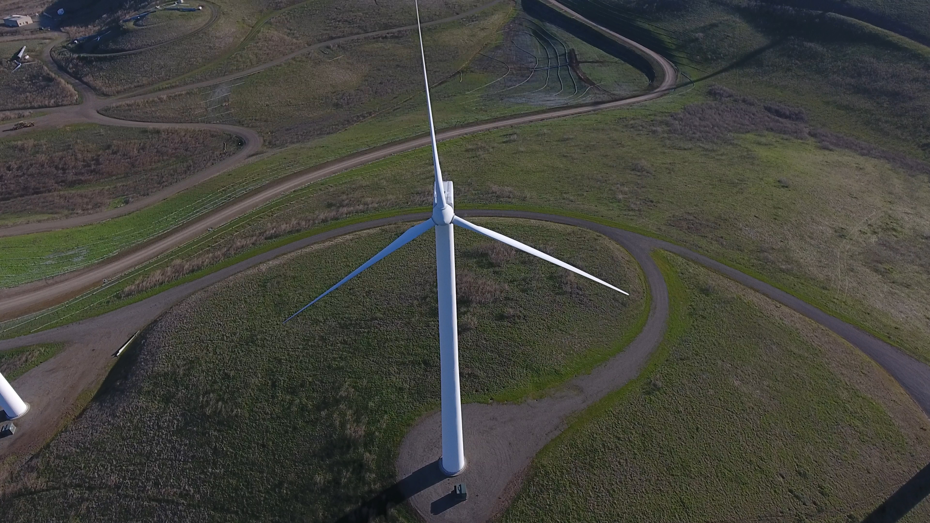 A newer wind turbine